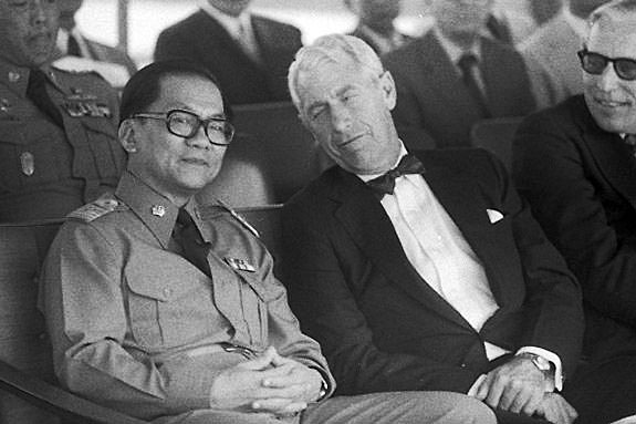 Thai Prime Minister Thanin Kraivichien and US ambassador to Thailand Charles Whitehouse, c. 1976, by Norman Peagam